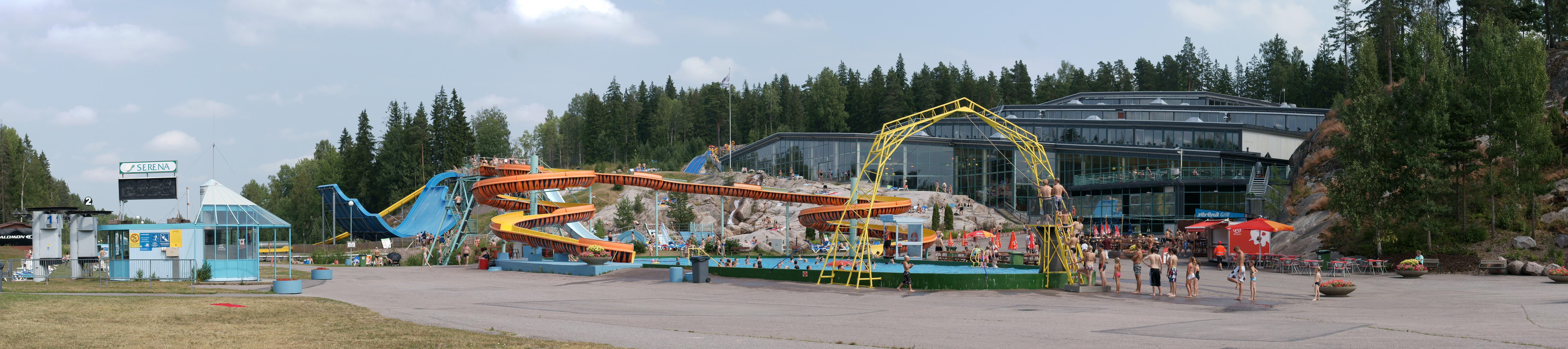 Panorama of water park Serena in Espoo, Finland.